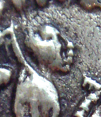 Coin_of_Azes_I_portrait_detail.